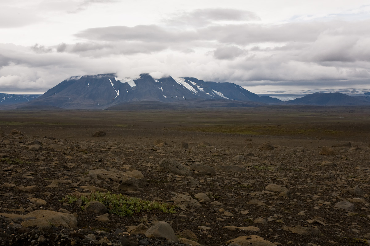 Hrútfell, tuya in the Highlands of Iceland from the East, in the right background Langjökull.